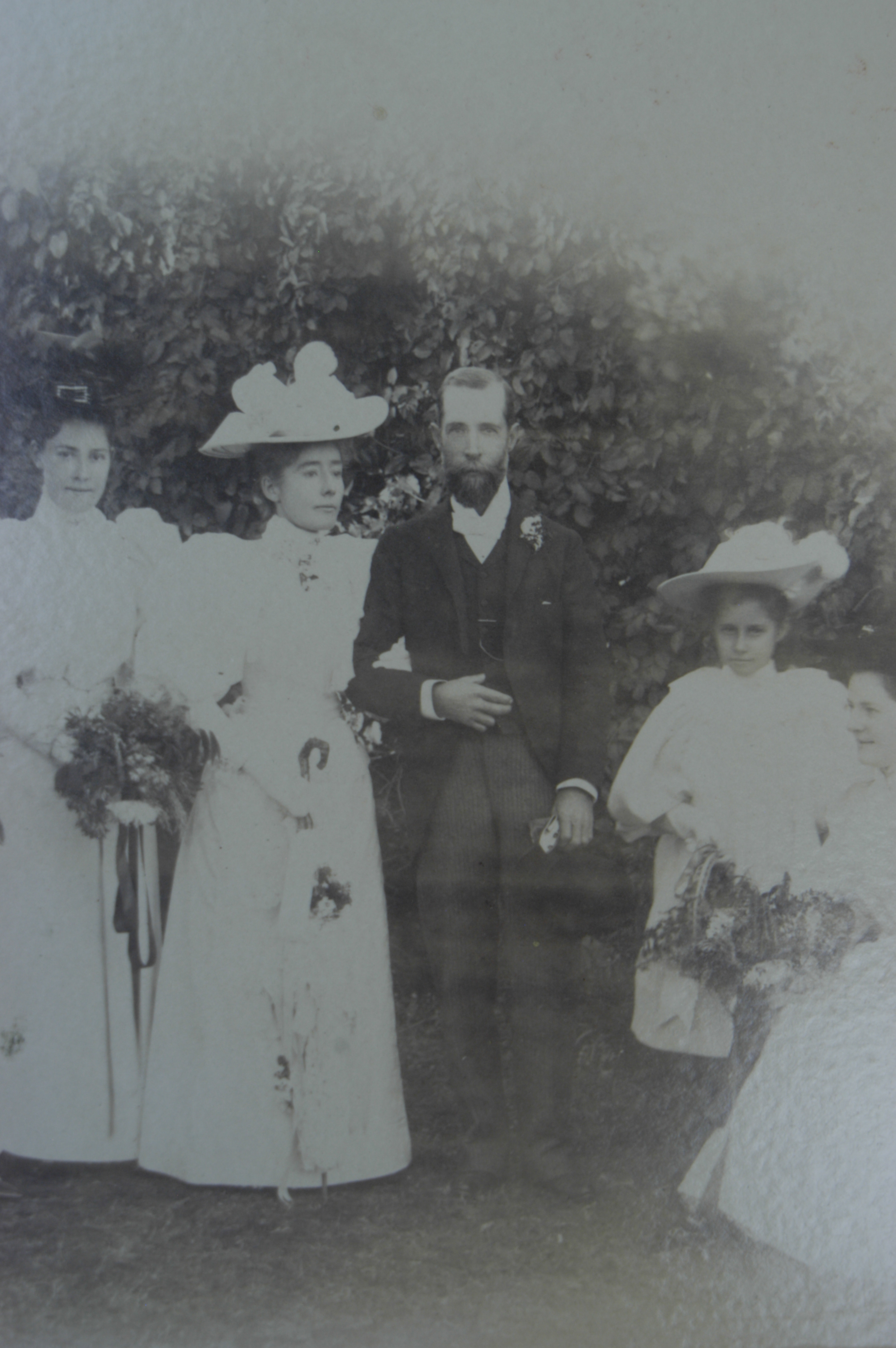 Photo (by me, R. de Salis, Rodolph (talk) 09:22, 22 August 2015 (UTC)) of part of a photopgraph of one of the sons of Count Leopold Fane de Salis, on his wedding day. CORRECTION, it is, Leopold WILLIAM Jerome (12.6.1845‒3.8.1930). Who assisted his father managing his estates. Was from 1872‒74 MLA for Queanbeyan in the NSW Parliament. 1910 returned to England and is buried at Harlington, Middlesex. MARRIED 29.5.1895, Jeanette Caroline Armstrong (died 1.6.1952).Rodolph (talk) 13:13, 5 October 2015 (UTC)